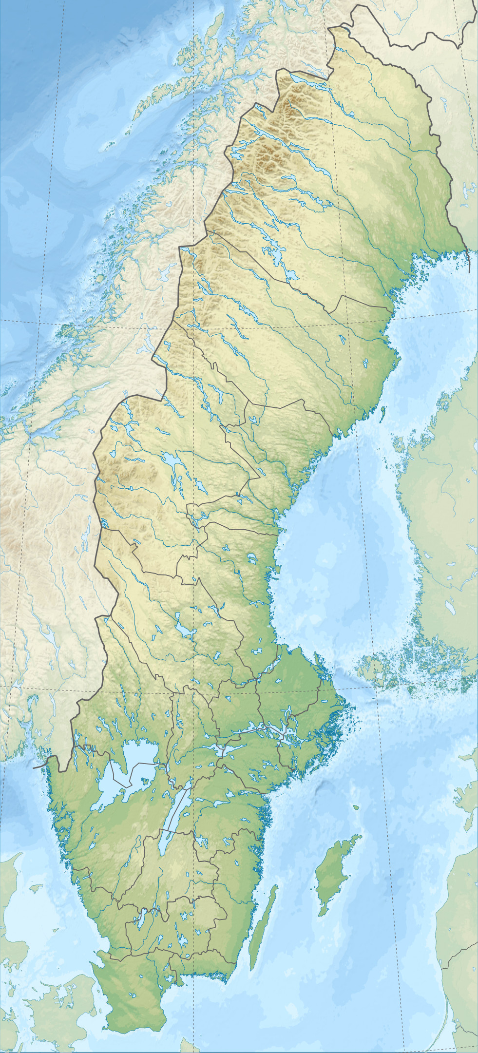 Sweden topographic map with Lambert conformal conic projection projection parameters : lon_0=15 lat_1=55 lat_2=70 lat_0=62.5 map limits: minx=-293328.424 maxx=431222.998 miny=-819642.953 maxy=775613.165 approximate projection formula x=1588.925/(tan(0.785398+ {2 }*0.0087266))^0.8896*sin(0.0155265*( {3 }−15))+40.5031 y=720.67724/(tan(0.785398+ {2 }*0.0087266))^0.8896*cos(0.0155265*( {3 }−15))−157.39943